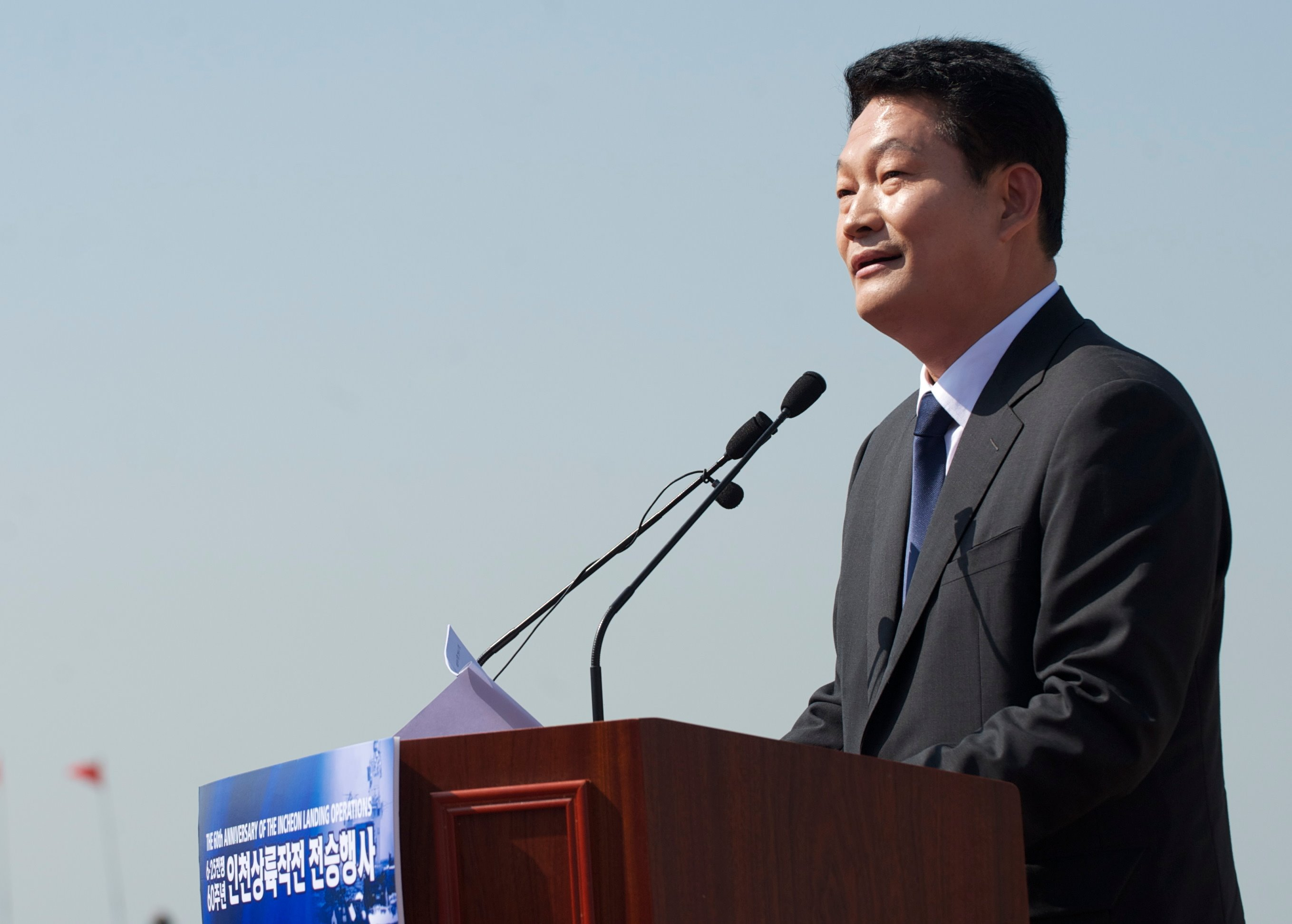 Memorial and celebration ceremonies mark the 60th anniversary of the Inchon Landing, Sept. 15. 2010- Photo by SSG Nicholas Salcido